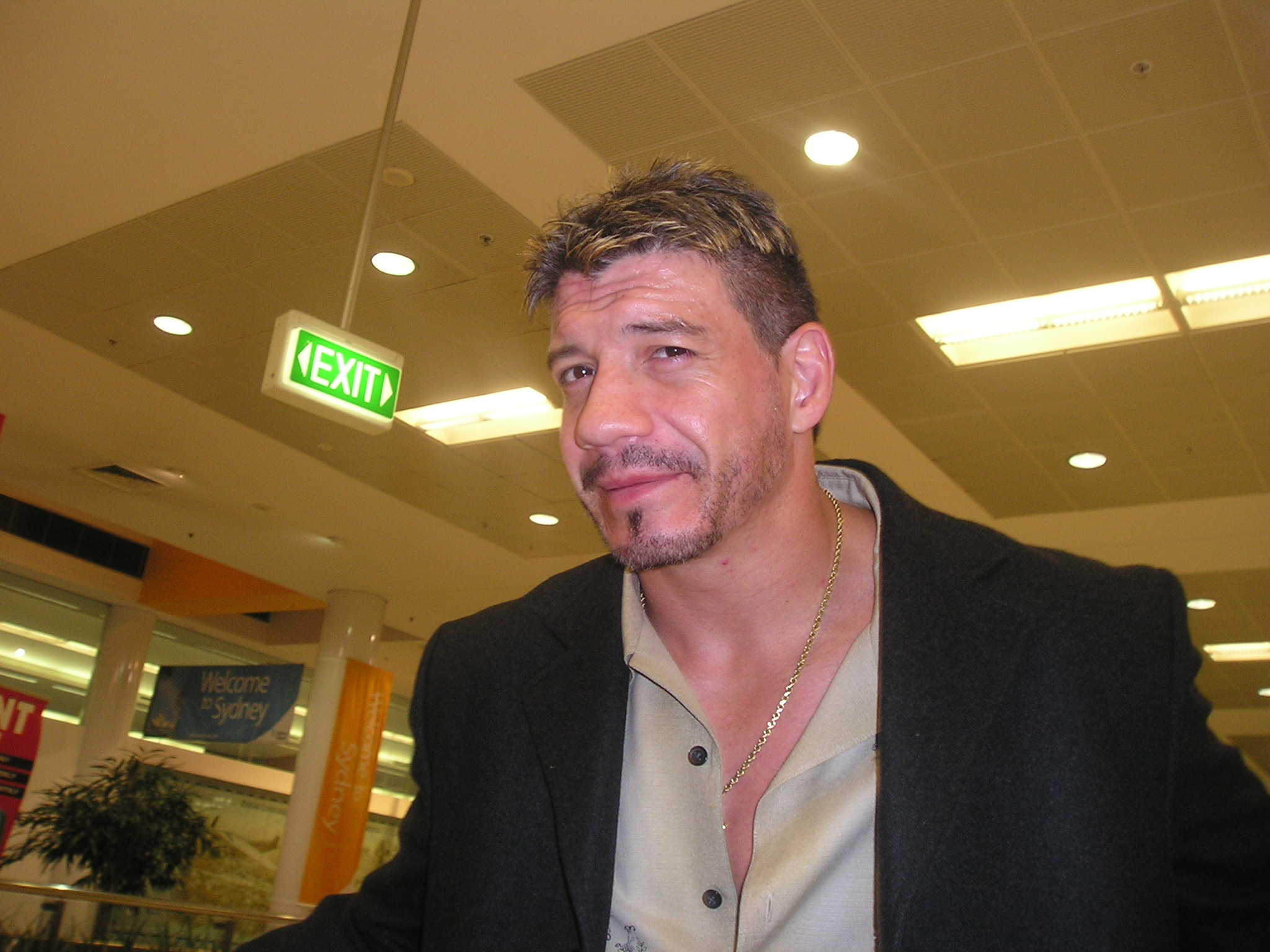 Professional Wrestler Eddie Guerrero arrives at Sydney International Airport.